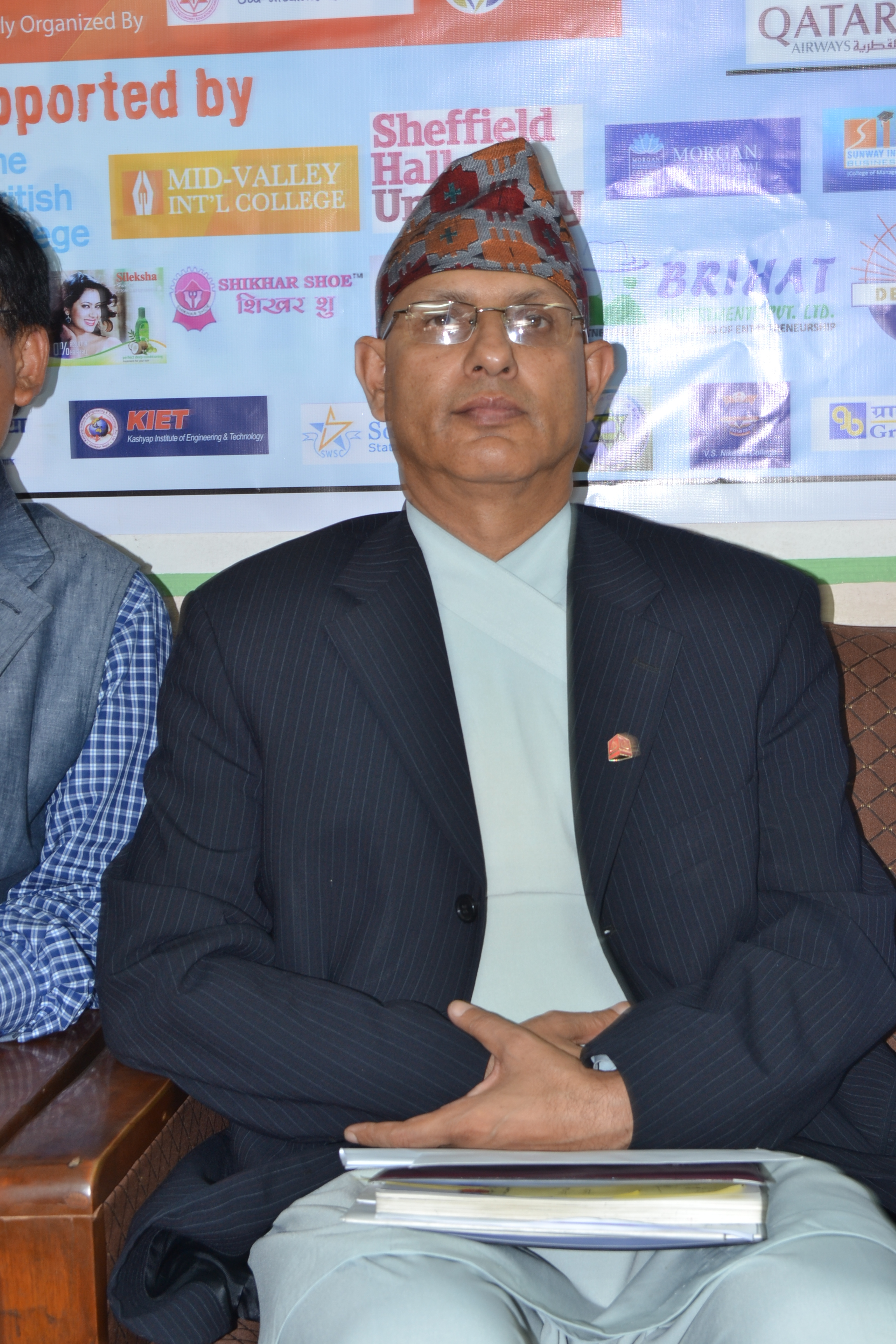 Communication Minister Madhav paudel at Repotersclub